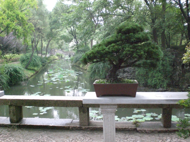 Suzhou, Humble Administrator's Garden, 1509-59